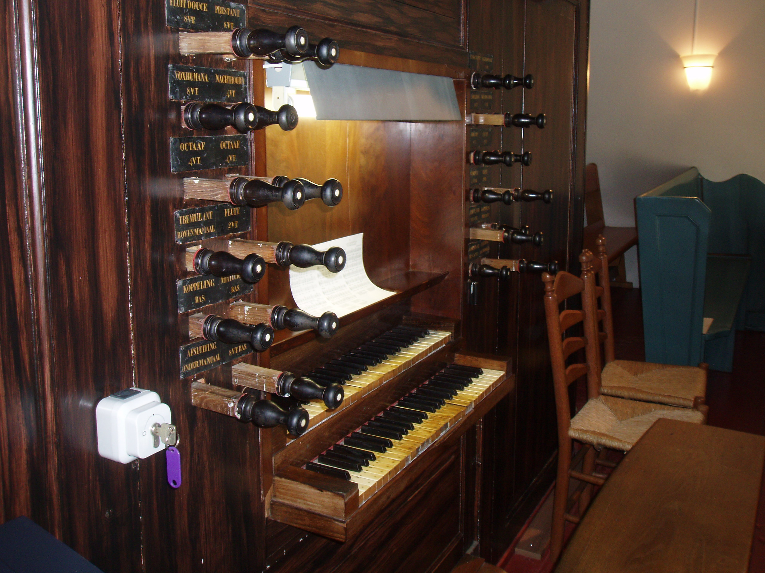 Console of the organ built 1856 by Petrus van Oeckelen.